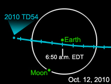 Orbit of astertoid "2010 TD54" thru earth-moon -system on 12th Oct 2010